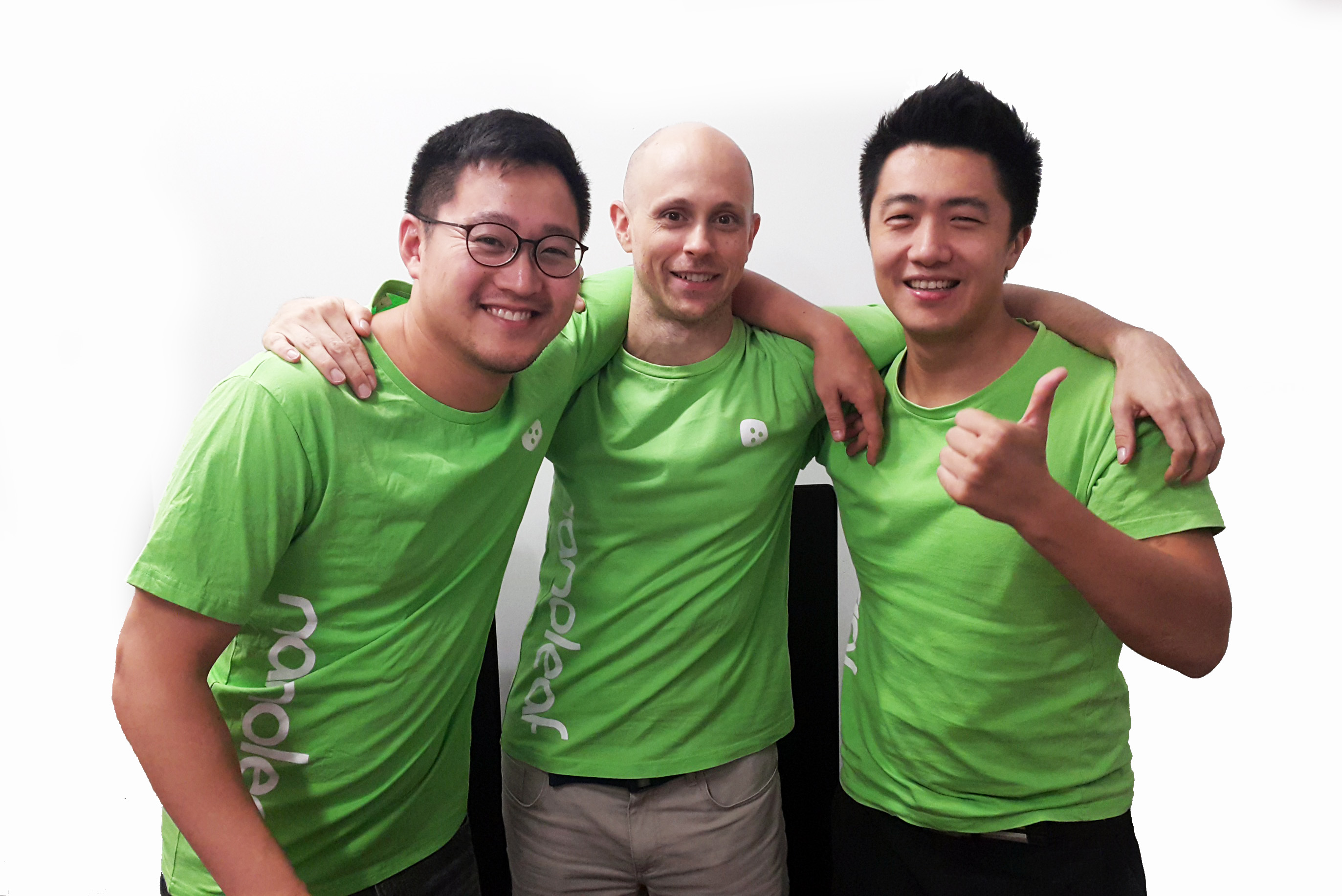 From the left: Gimmy Chu, Tom Rodinger, Christian Yan - the three founders of Nanoleaf.